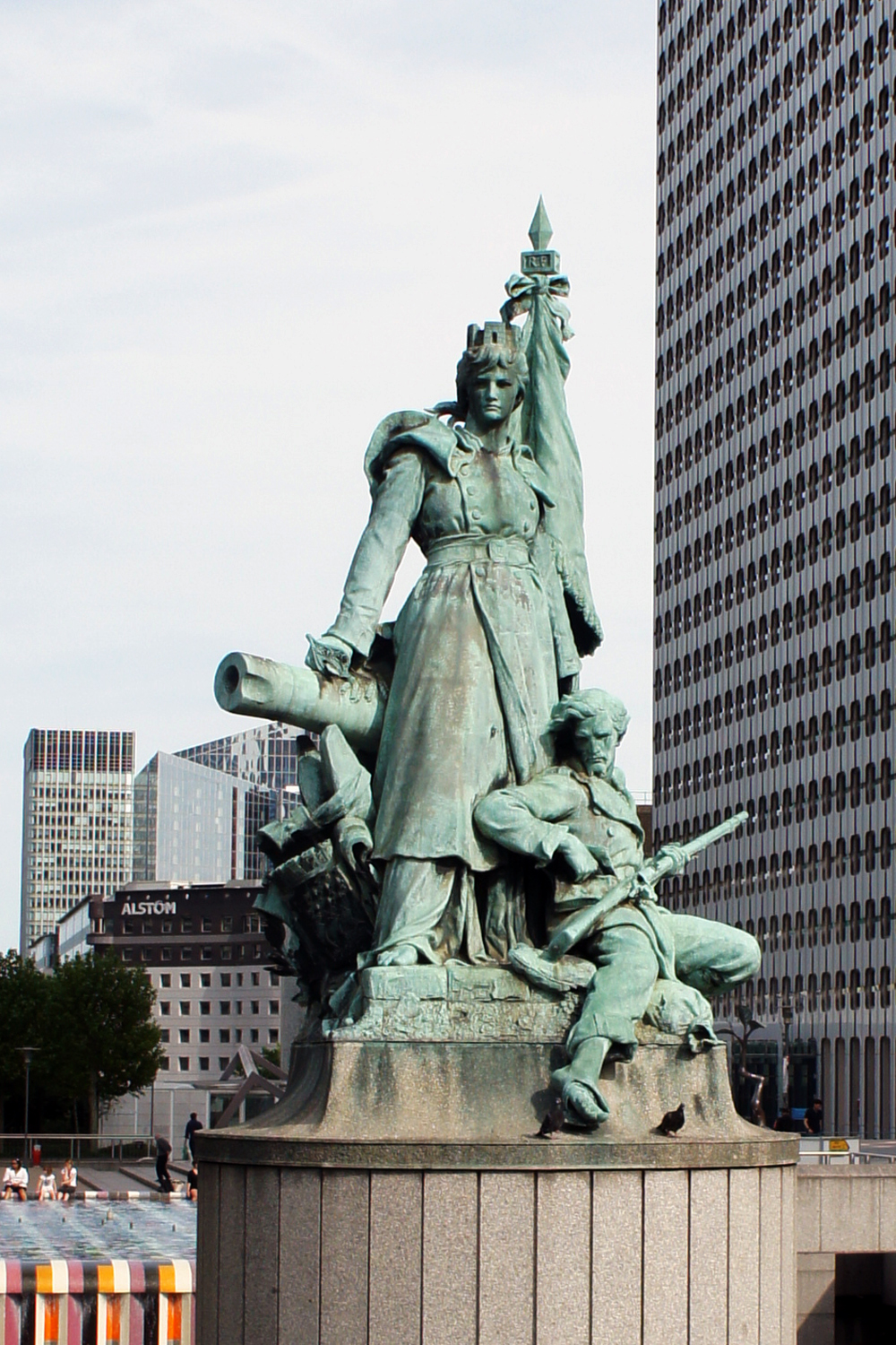 Statue of La Défense de Paris which commemorates the Parisian resistance during the Franco-Prussian War.La Défense business district, Paris.